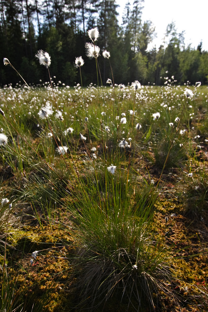 Hare's-tail Cottongrass (Eriophorum vaginatum) See where this picture was taken. ?